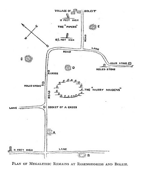 Merry Maidens - Lamorna - Cornwall - UK